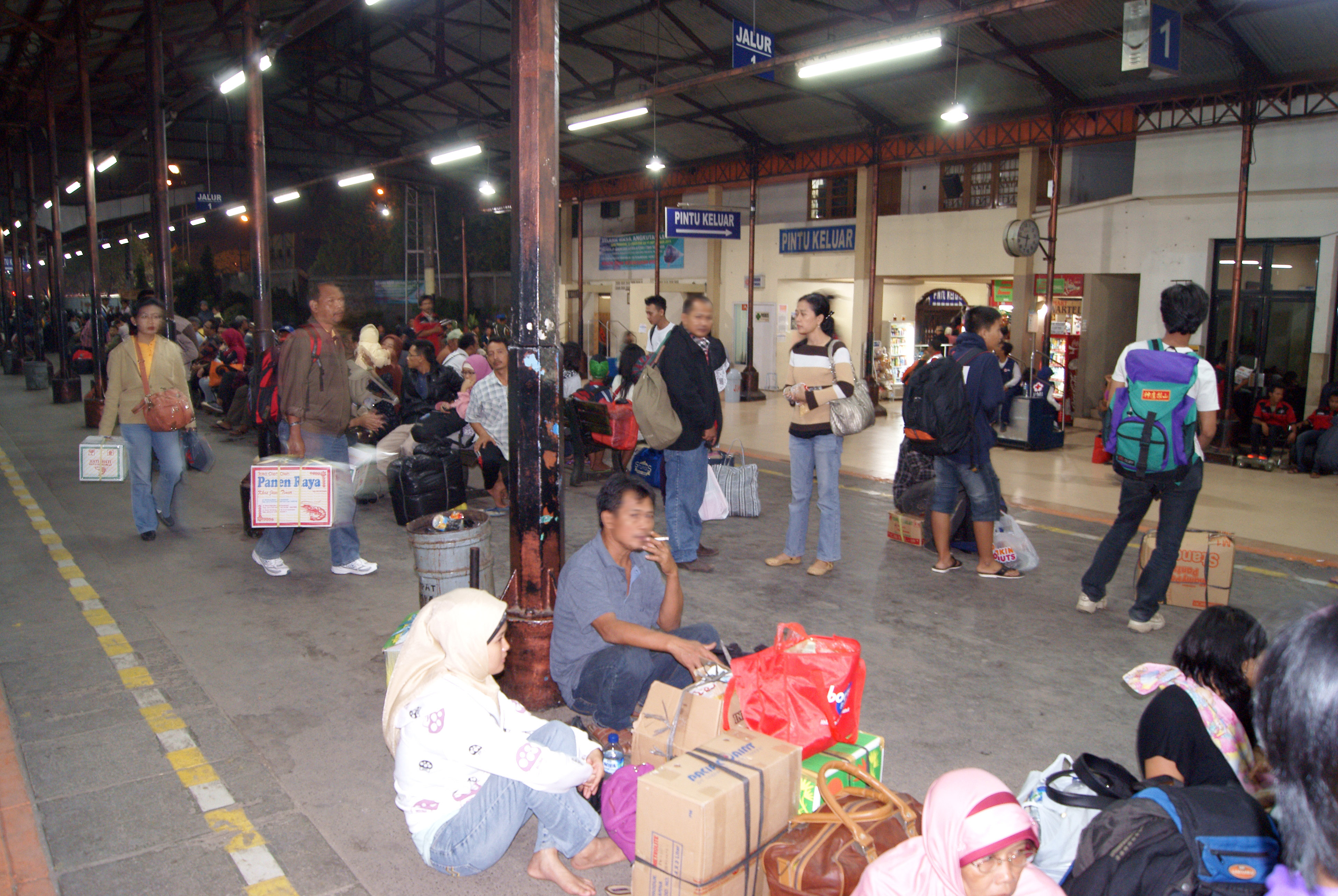 Train passengers waiting to go their hometown.